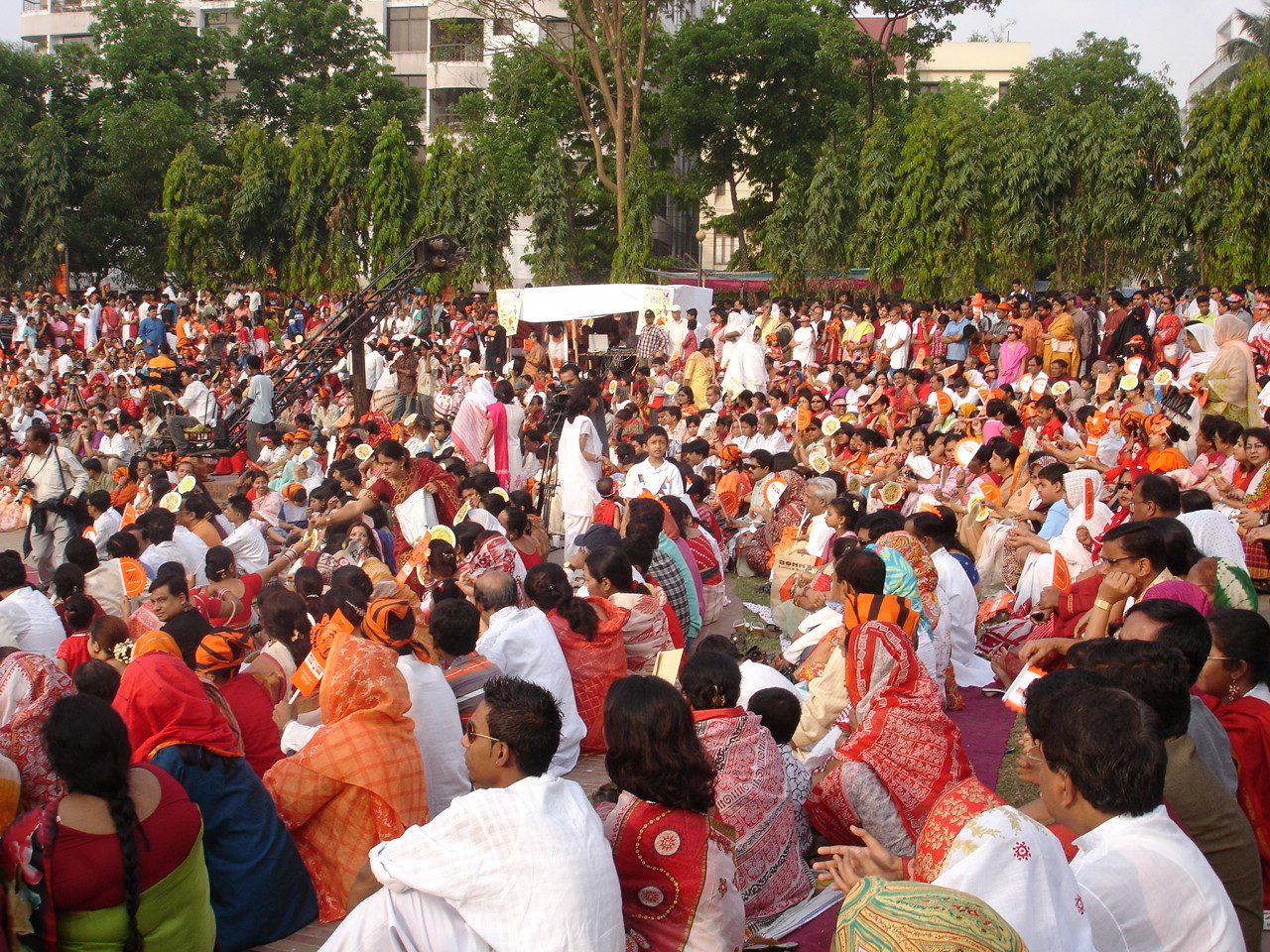 Celebrating Pohela Boishak.